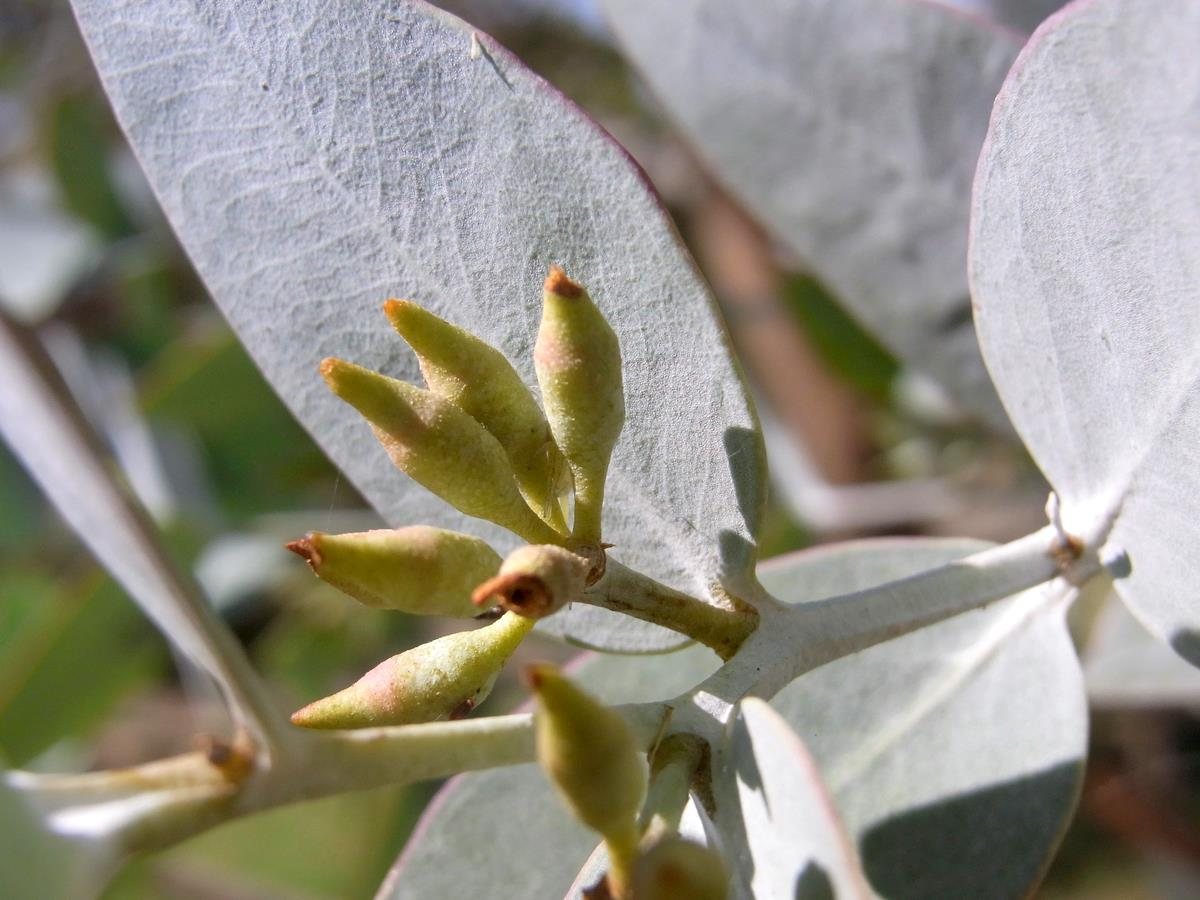 Eucalyptus gillii, Lake Burrendong Botanic Gardens, Australia